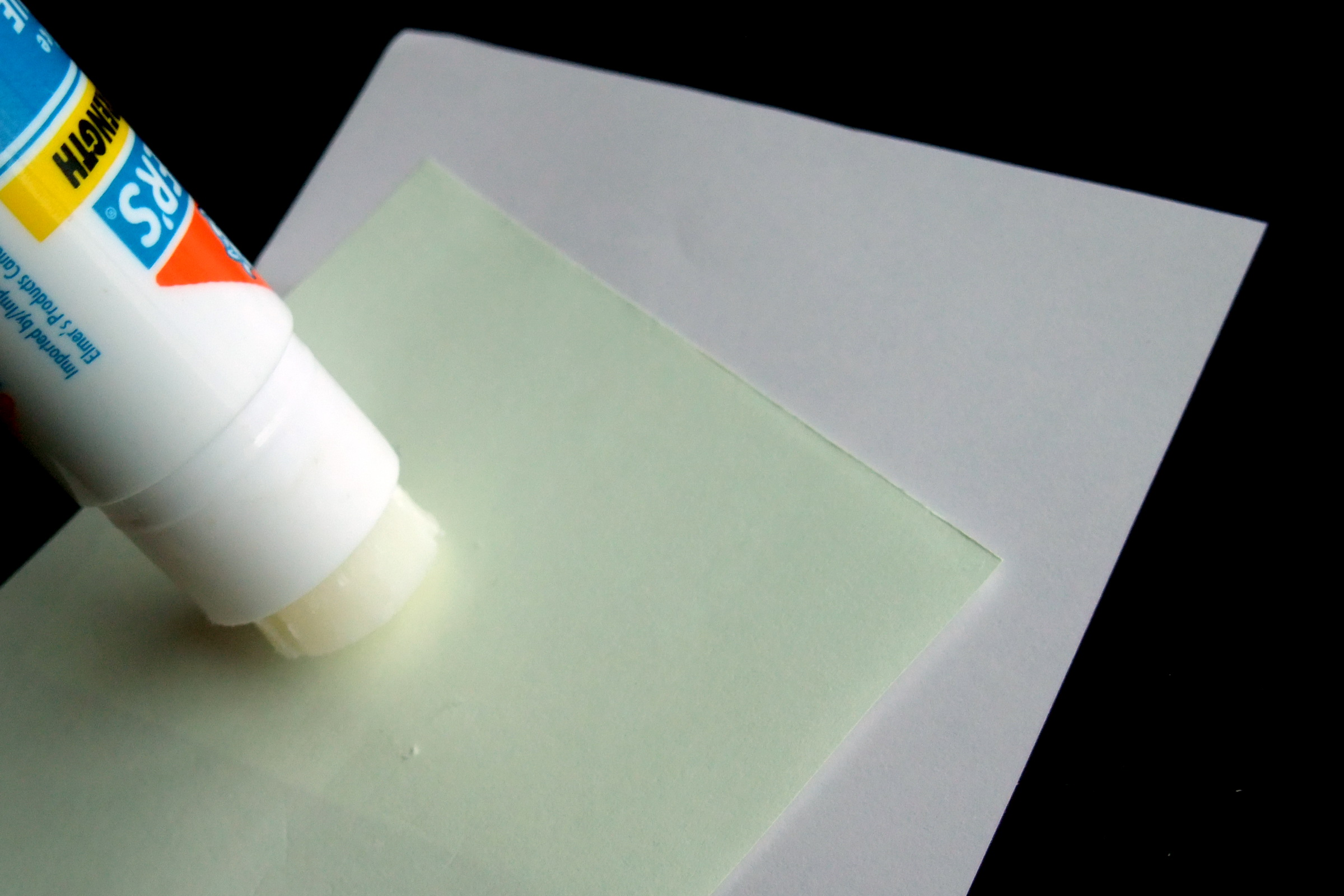 Elmer's extra strength office glue stick in action